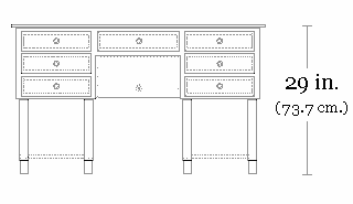 Sketch (front) done to illustrate the bureau Mazarin article in Wikipedia